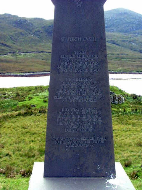 Detail of commemorative stone at Ceann Shìpoirt. The stone reads.......... Seaforth Castle In 1620, Kenneth, chief of the Clan Mackenzie and owner of Lewis, built his first residence here at Seaforth Head. His successors, the Earls of Seaforth took their title from the nearby loch and raised the Seaforth Highlanders Regiment, taking their name all over the world. They were amongst the most decorated and successful fighting units in the British army until the name was lost in the reforms of the late 20th century. The Mackenzies brought peace to the island and ruleed for over 200 years.